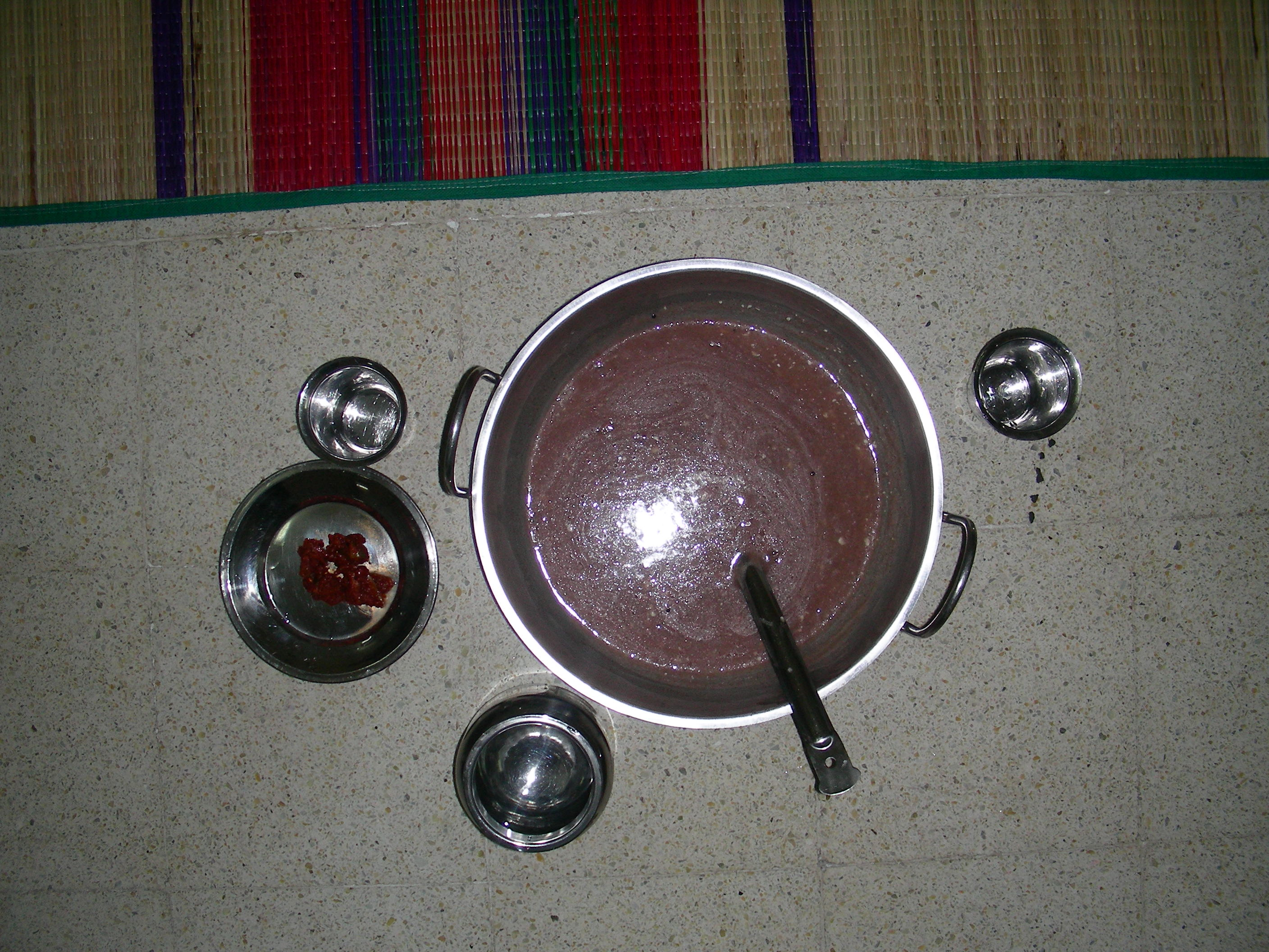 Millet porridge ready to be served along with ginger (mango-ginger variety) pickle.